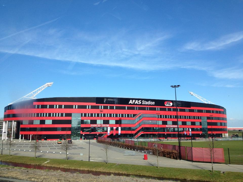 AZ play their home games at the AFAS Stadion, located in the southern part of the city of Alkmaar.